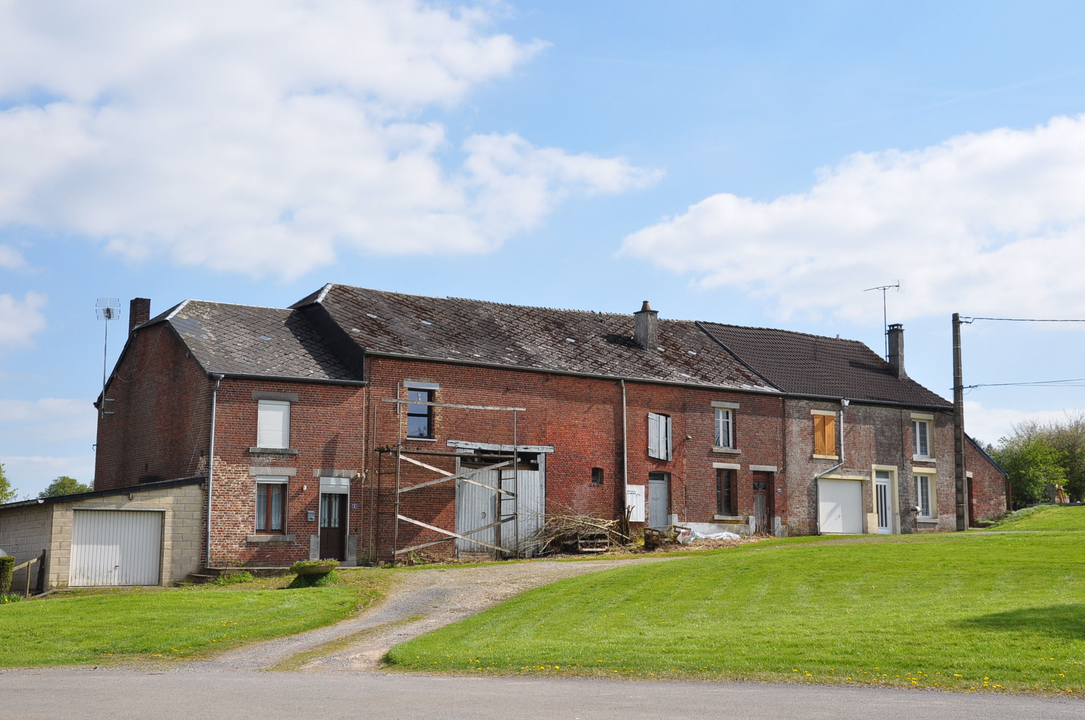 Large farm in Regniowez (Ardennes department, Champagne-Ardenne region, France).